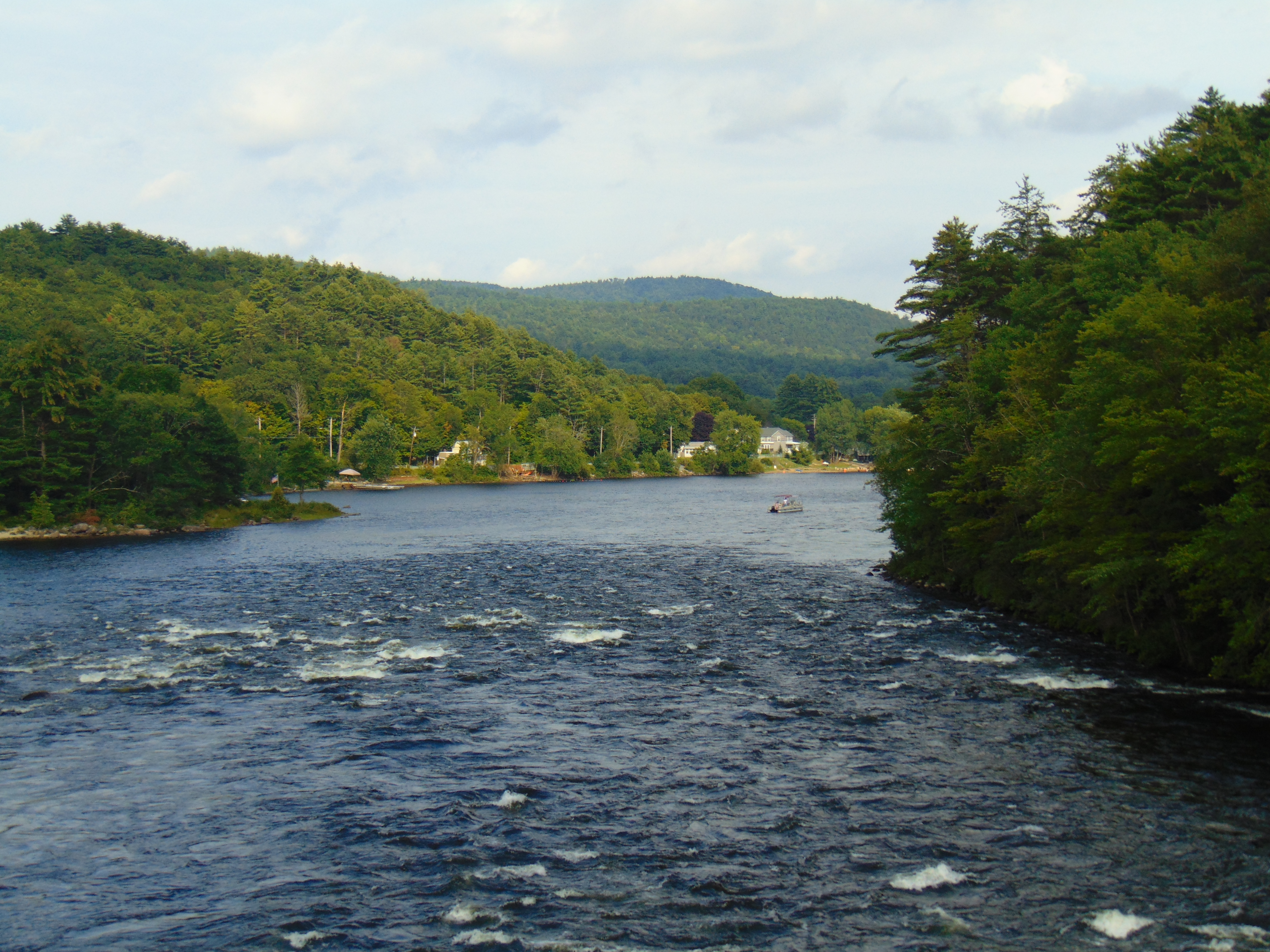 The Sacandaga River when it flows into the Hudson River. From the Hadley Bow Bridge